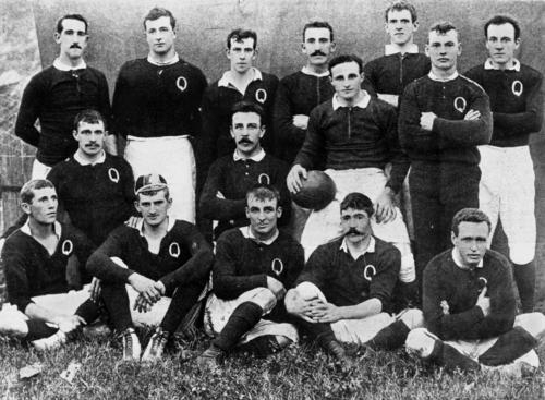 Queensland rugby union team photo The Queenslander, 8 July 1899 page 73 Front: Kent, Boland, Tanner, Currie, A J Colton.Middle: Gralton, Graham, McCowan, T Colton Back: Evans, Carew, Ward, Austin, Corfe, Dixon.